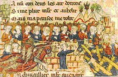 Miniature of Tournoi of Chauvency, manuscript of Oxford (Bodleian Library, MS. Douce 308), Folio 117r